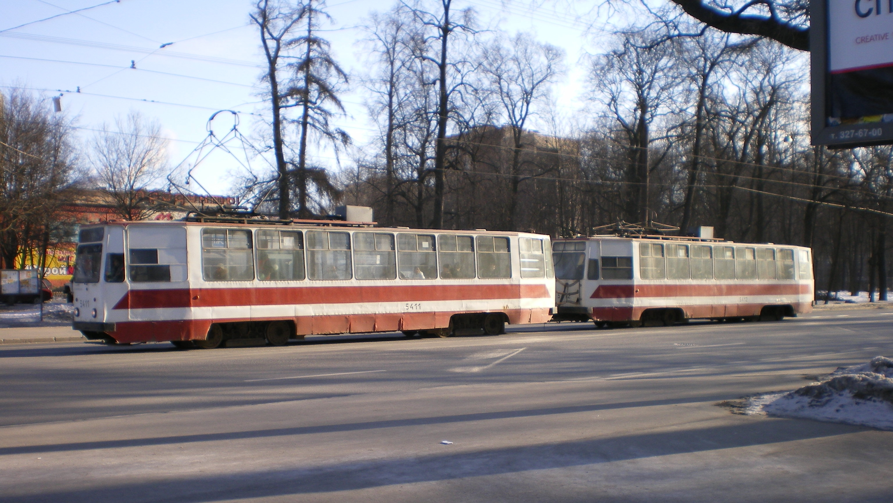 Tractive connection from two trams of a route 55